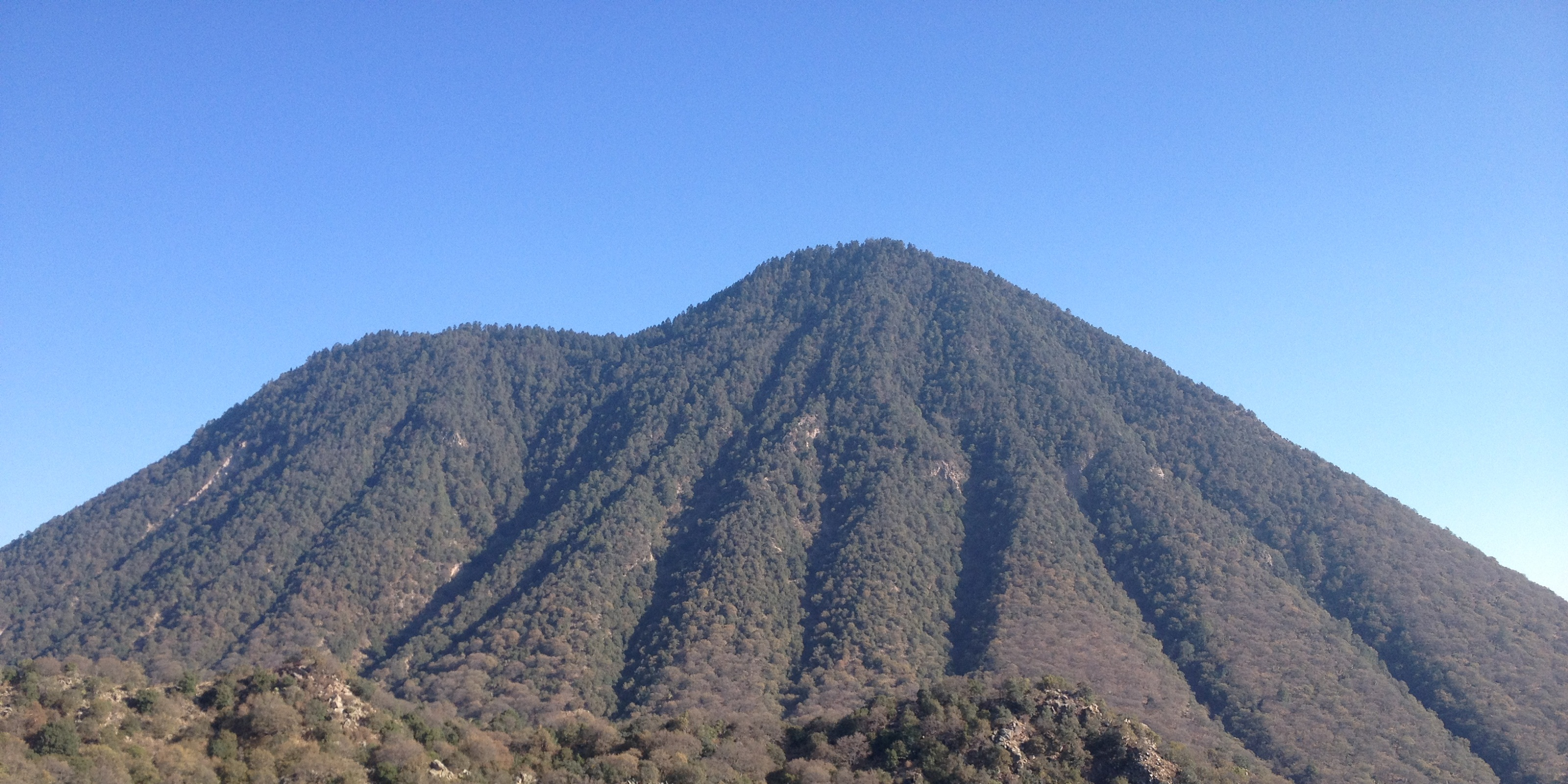 El Pinal (3280 m a.s.l.) is a volcanic mountain in Puebla, Mexico. This photo was taken from the summit of cerro Huilotepec, a hill located just south of El Pinal.